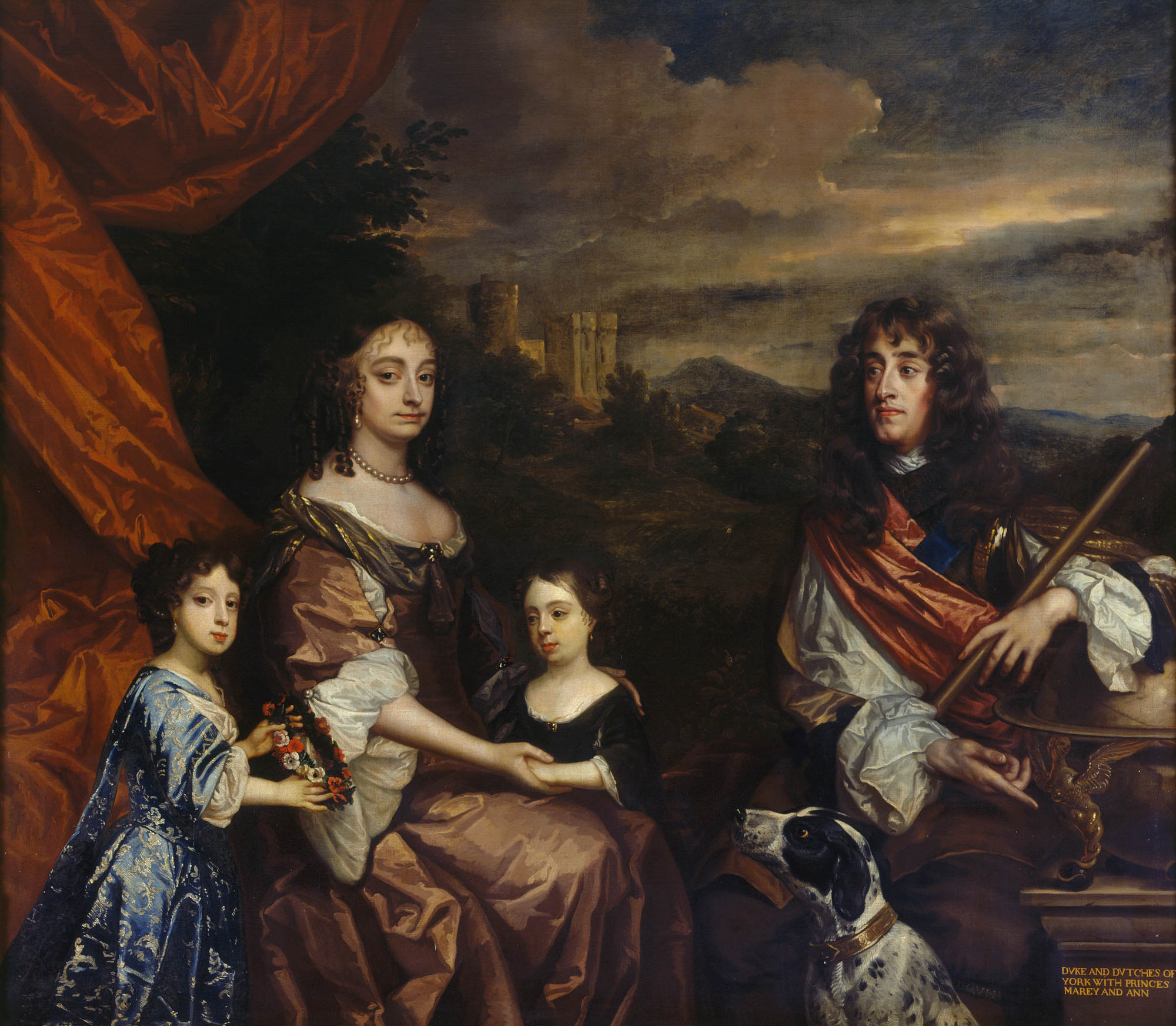 The Family of James, Duke of York. The Duke (later King James II and VII) and Duchess of York (previously Anne Hyde) were painted by Peter Lely in between 1668 and 1670. Their two daughters, Mary (left) and Anne (right), later Queen Mary II and Queen Anne, were added by Benedetto Gennari in or after 1680. Windsor Castle is in the background.